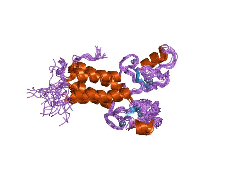 Cartoon representation of the molecular structure of protein registered with 1jm7 code.